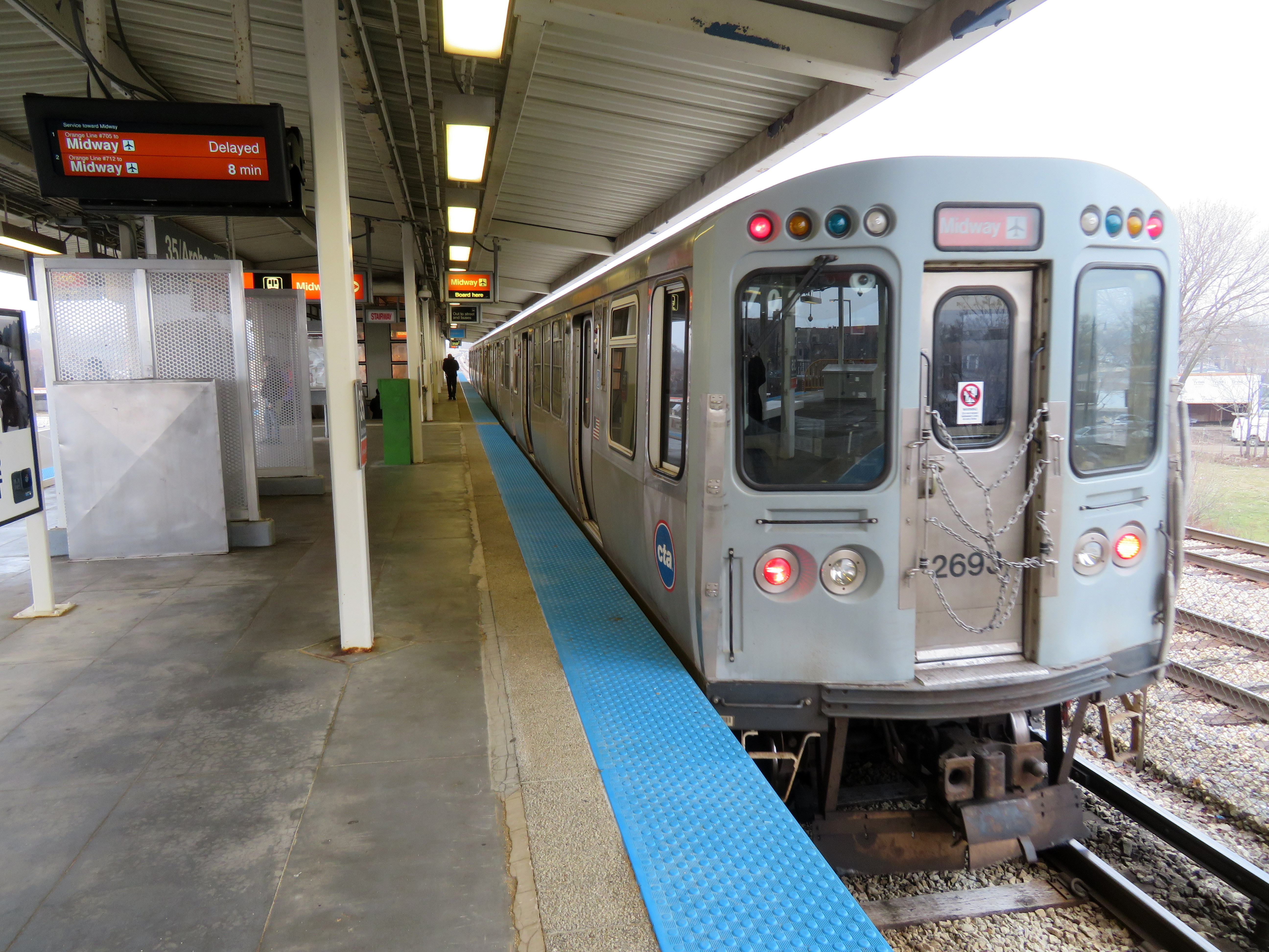 Midway-bound train leaving 35th/Archer station in December 2018